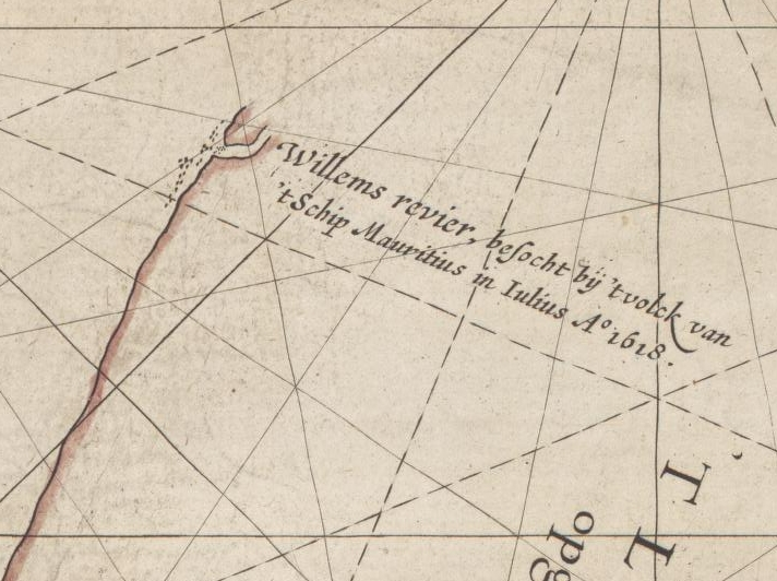 This is an image showing detail of the National Library of Australia's copy of Hessel Gerritsz' 1627 map of the north west coast of Australia entitled "Caert van't Landt van d'Eendracht". This detail shows features labelled "Willems revier, besocht by 't volck van 't Schip Mauritius in Iulius A° 1618" ("Willem's River, visited by the crew of the ship Mauritius in July 1618").